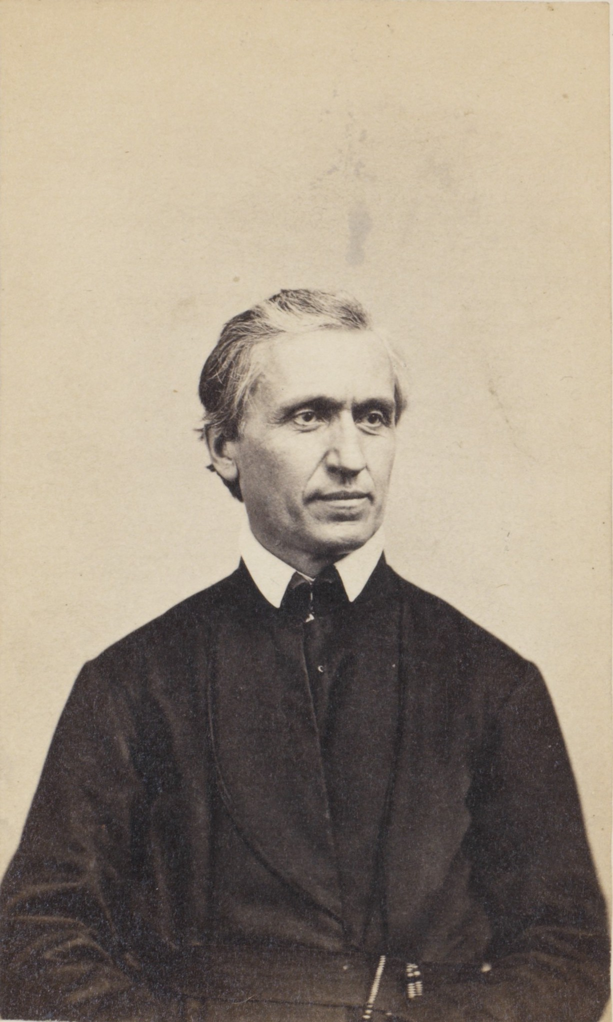 Photograph of Rev. John Bapst, S.J.